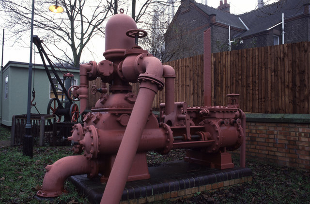 Fire Pump - Cambridge Museum of Technology. Steam pump from the large flour mill near Cambridge Station.